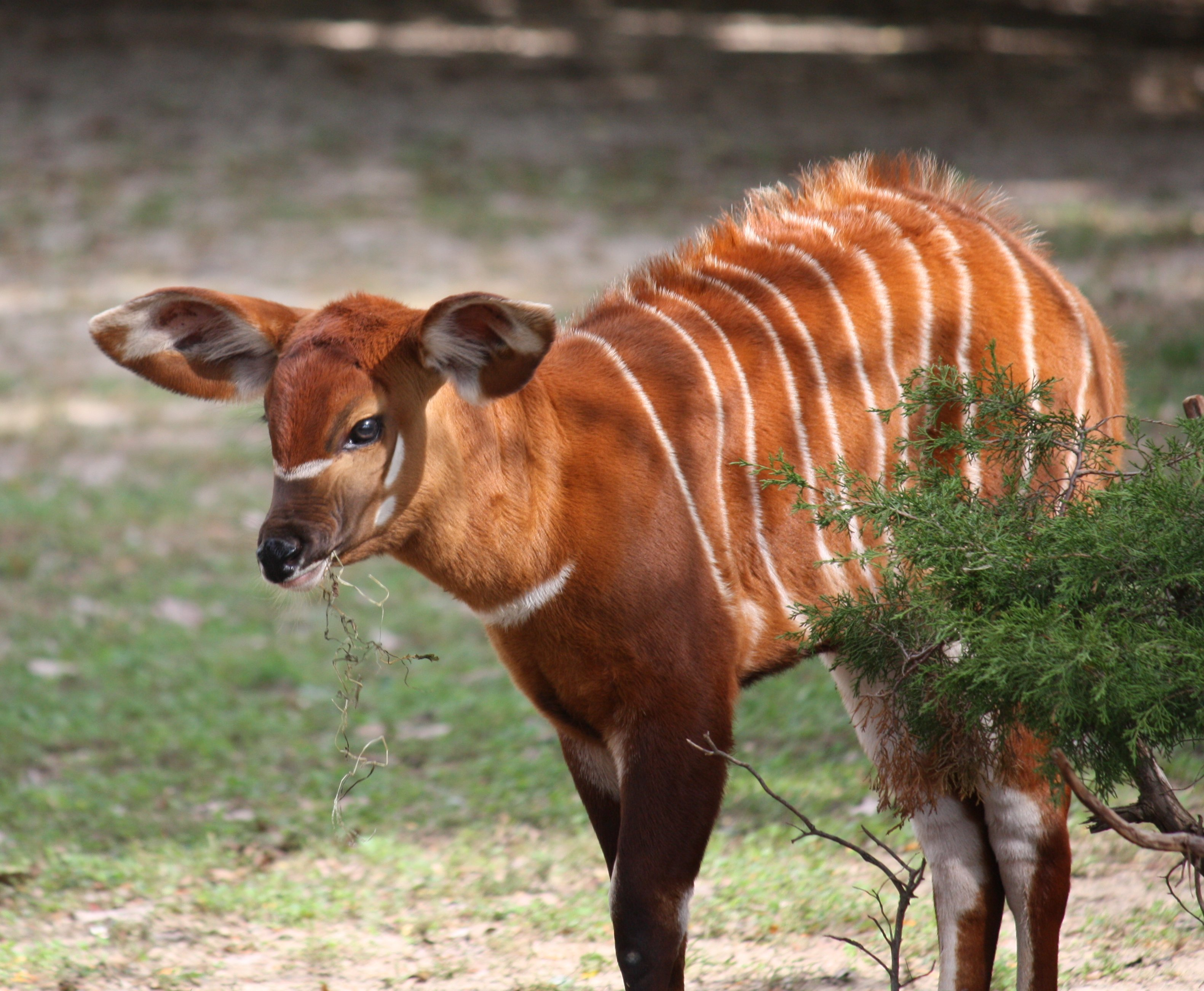 Juvenile Bongo Tragelaphus eurycerus isaaci at Louisville Zoo